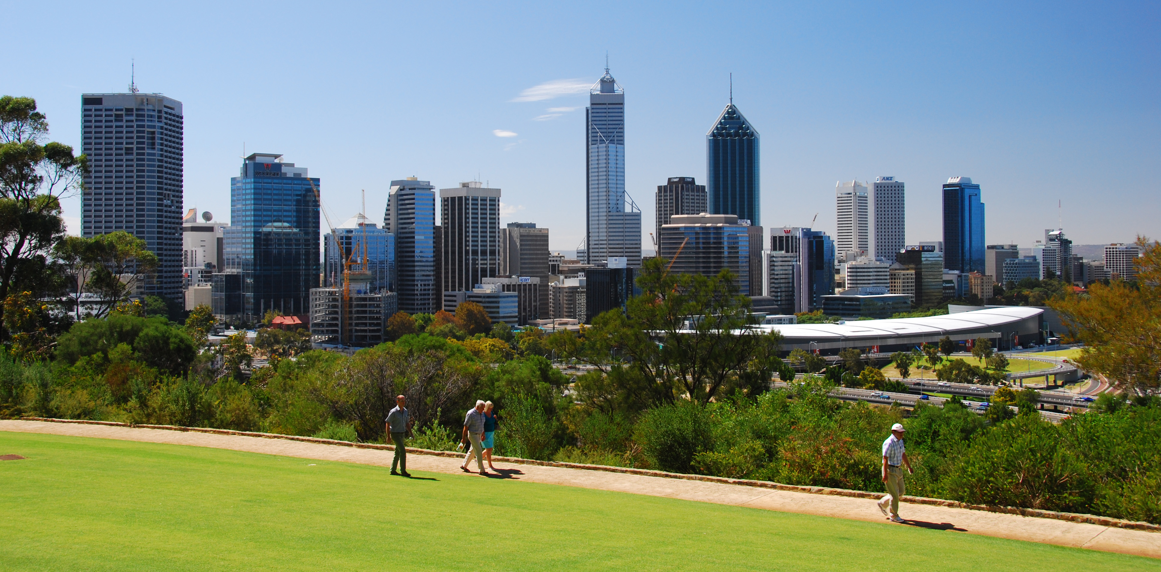 The Perth skyline, viewed from Kings Park.